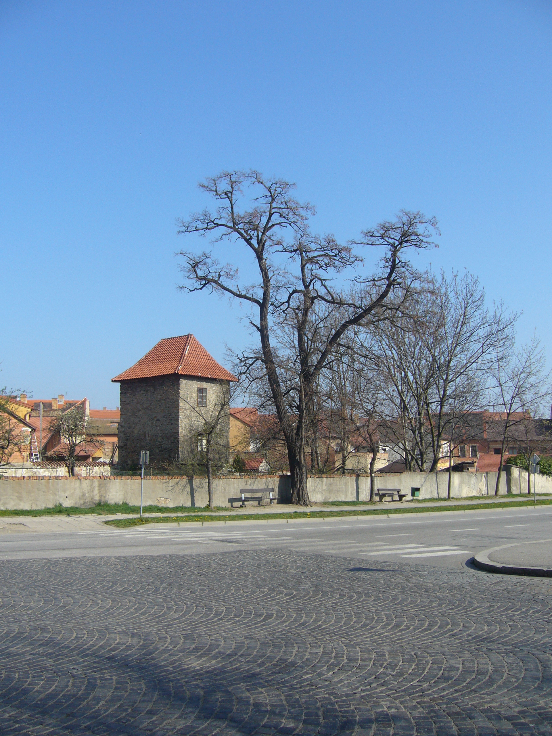 City fortification of Vodňany, South Bohemia Region, Czech republic